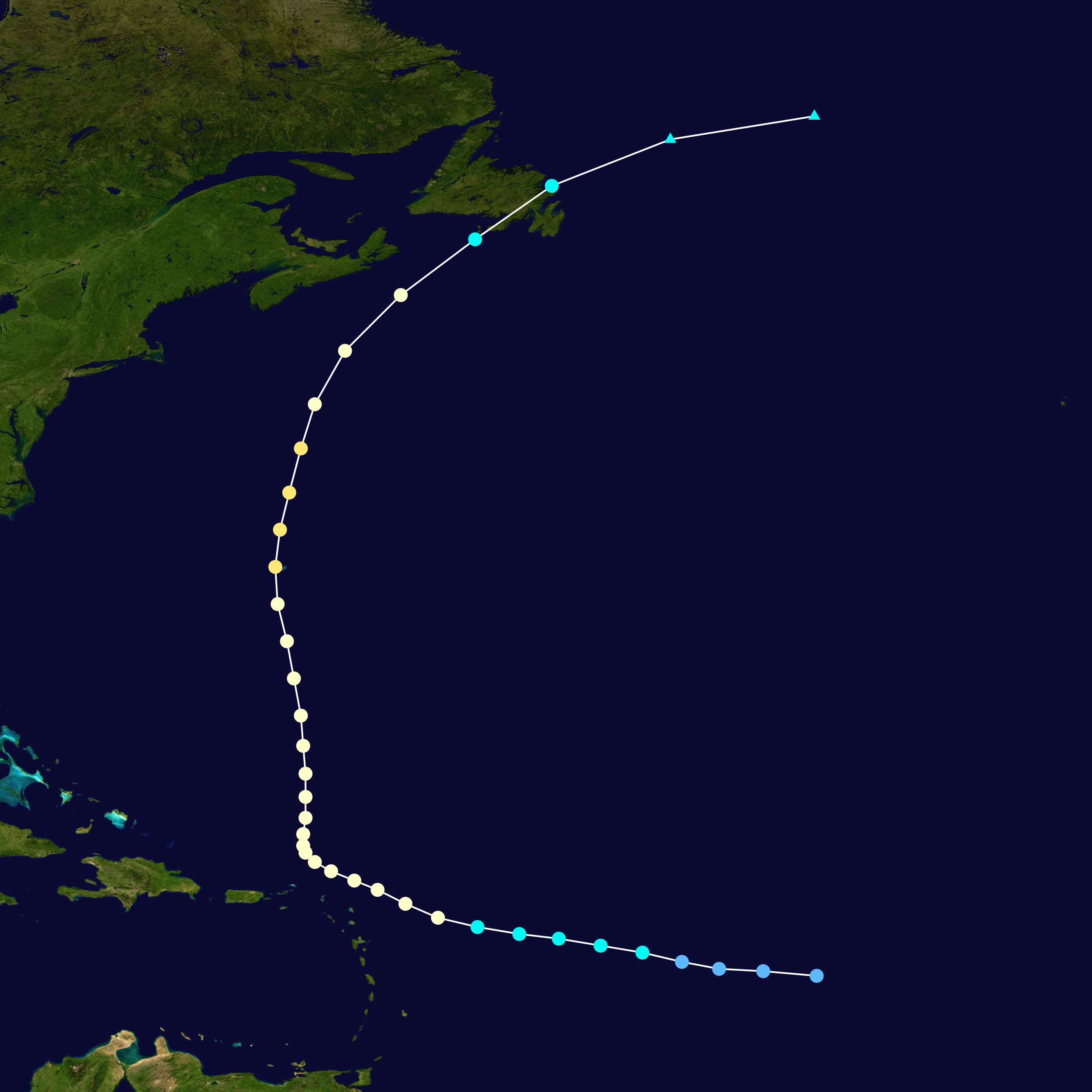 Hurricane Dean (1989) track. Uses the color scheme from the Saffir-Simpson Hurricane Scale.